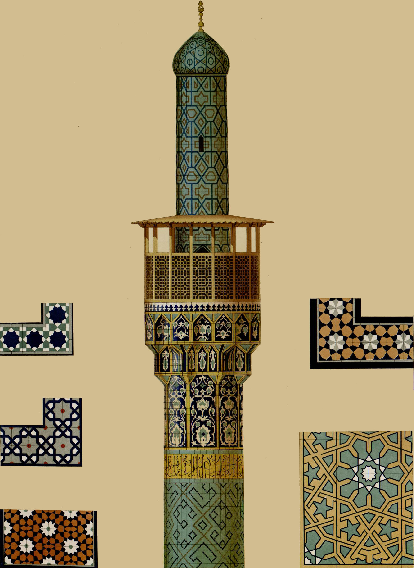 College of mother of Shah Sultan Hussein, minaret and details